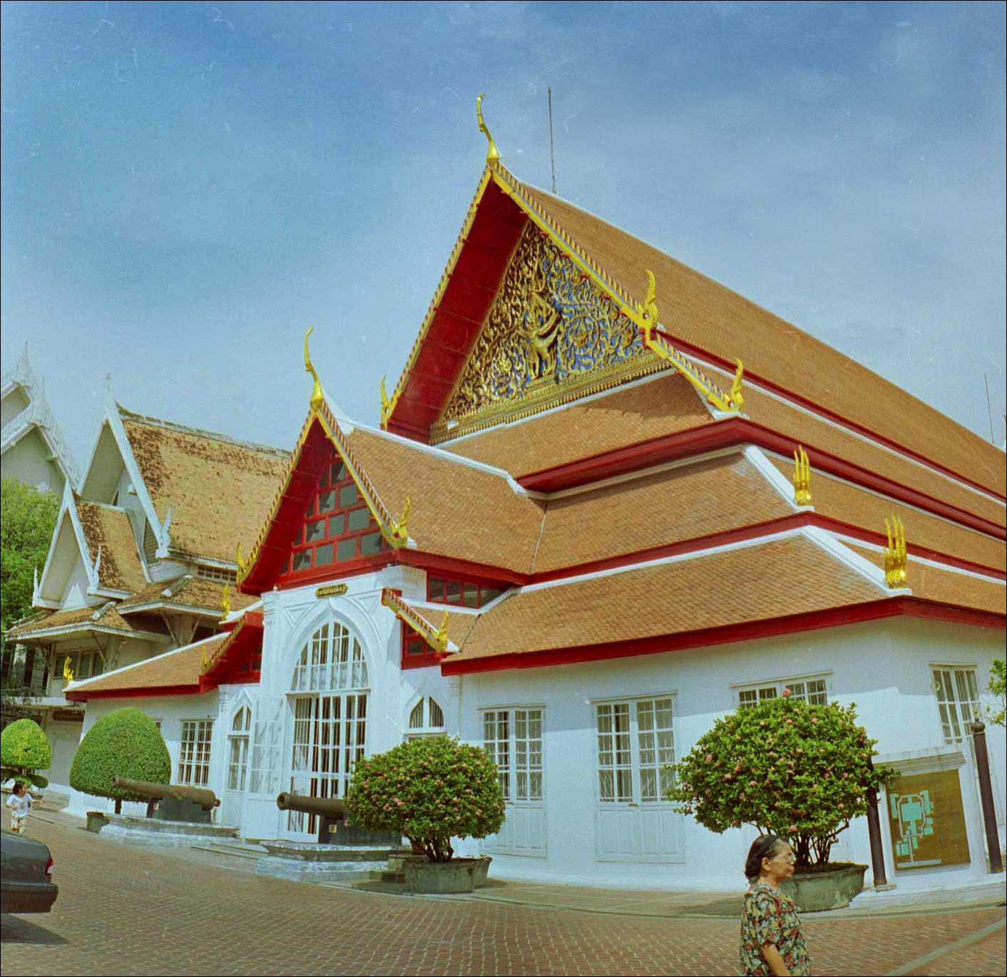 Palace of the Deputy King of Siam, today National Museum Bangkok, Thailand